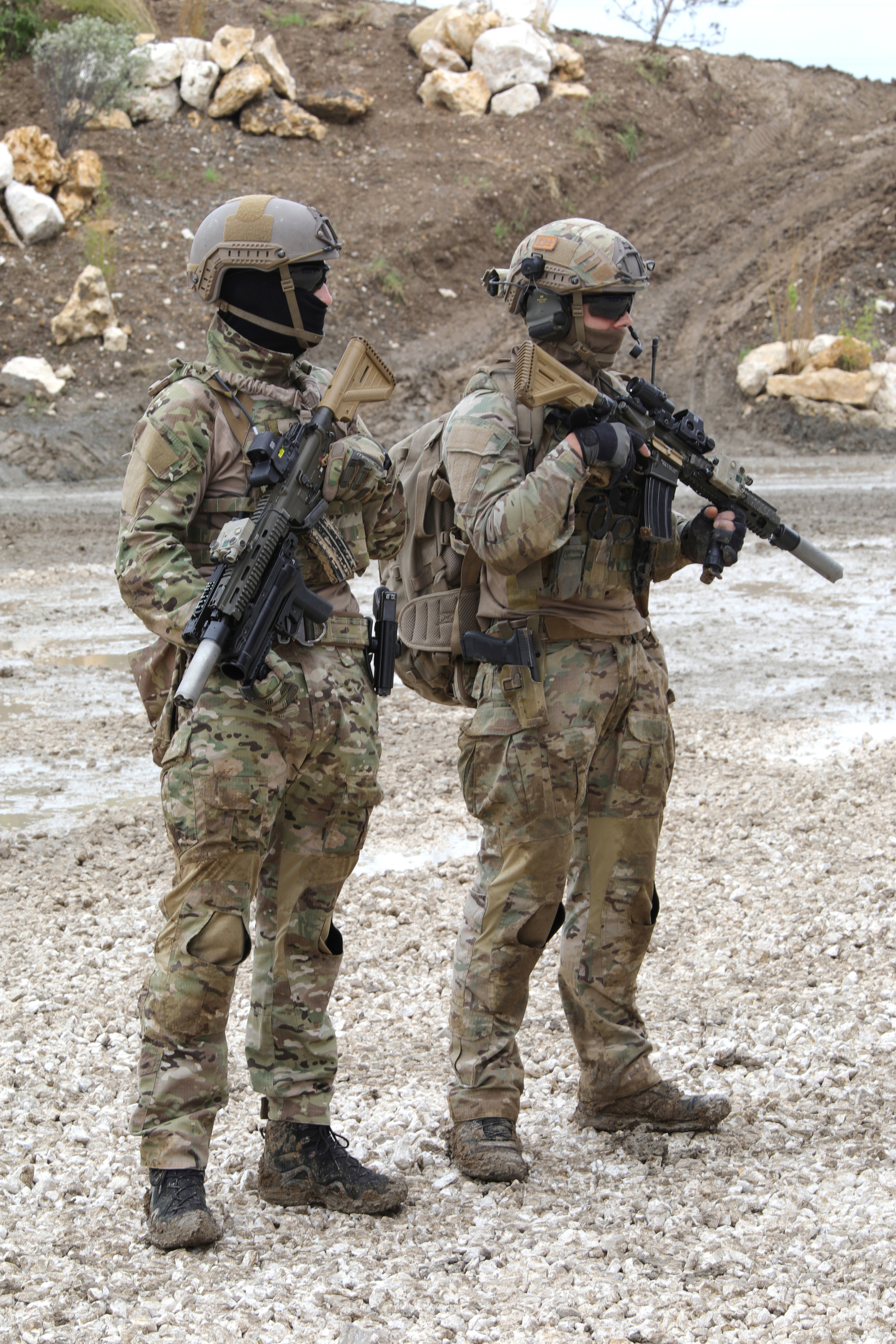 French army special forces team during a hostage rescue demo-6 June 2018